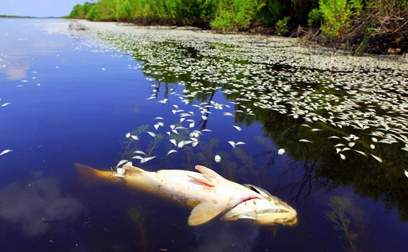 Fish floating in waterways near Pointe à la Hache, Louisiana